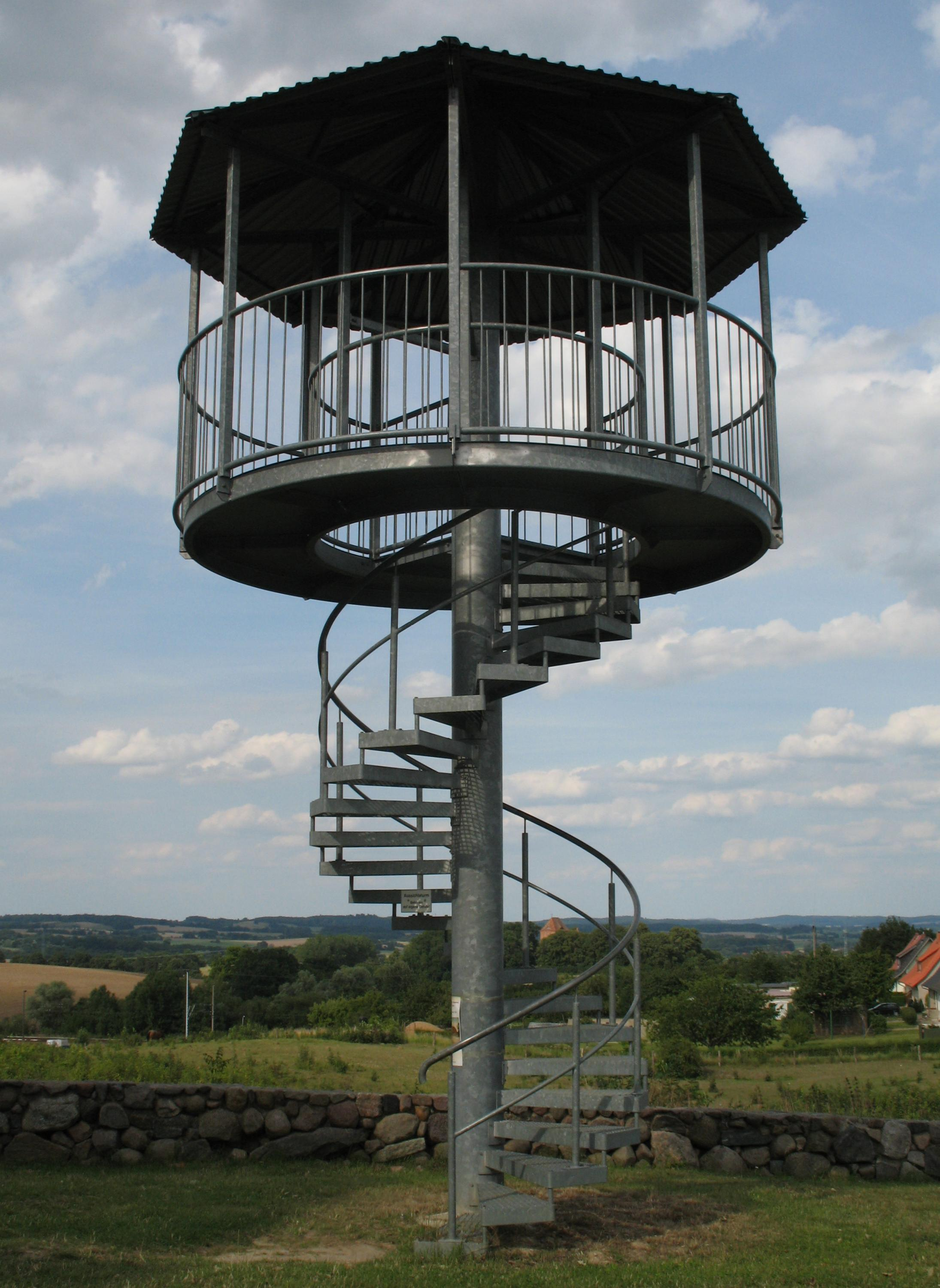 View tower in Vollrathsruhe in Mecklenburg-Western Pomerania, Germany